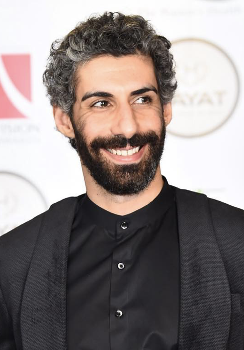 Jim Sarbh, Winner at the Asiavision Awards, Dubai.